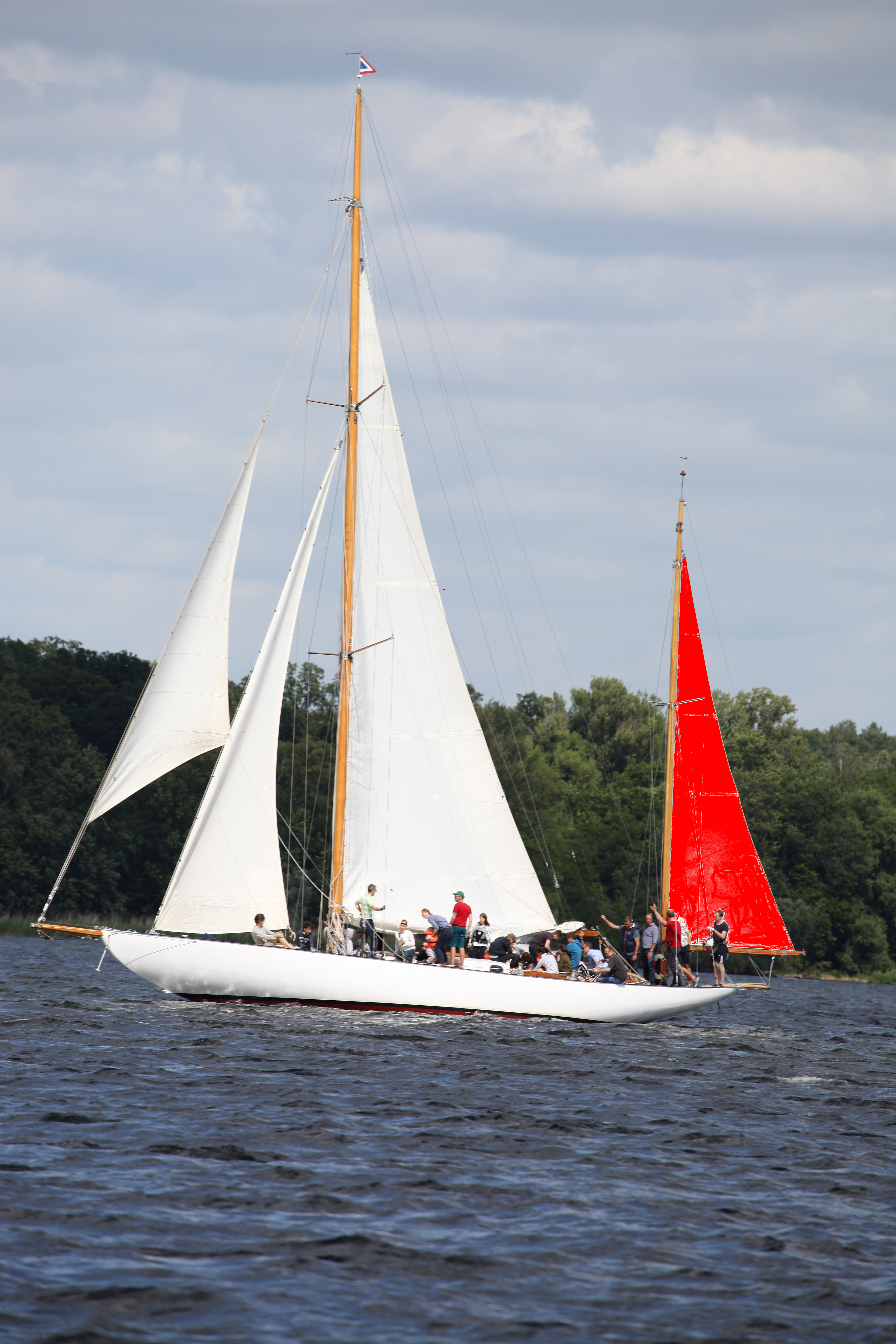 Mizzensail of a yawl